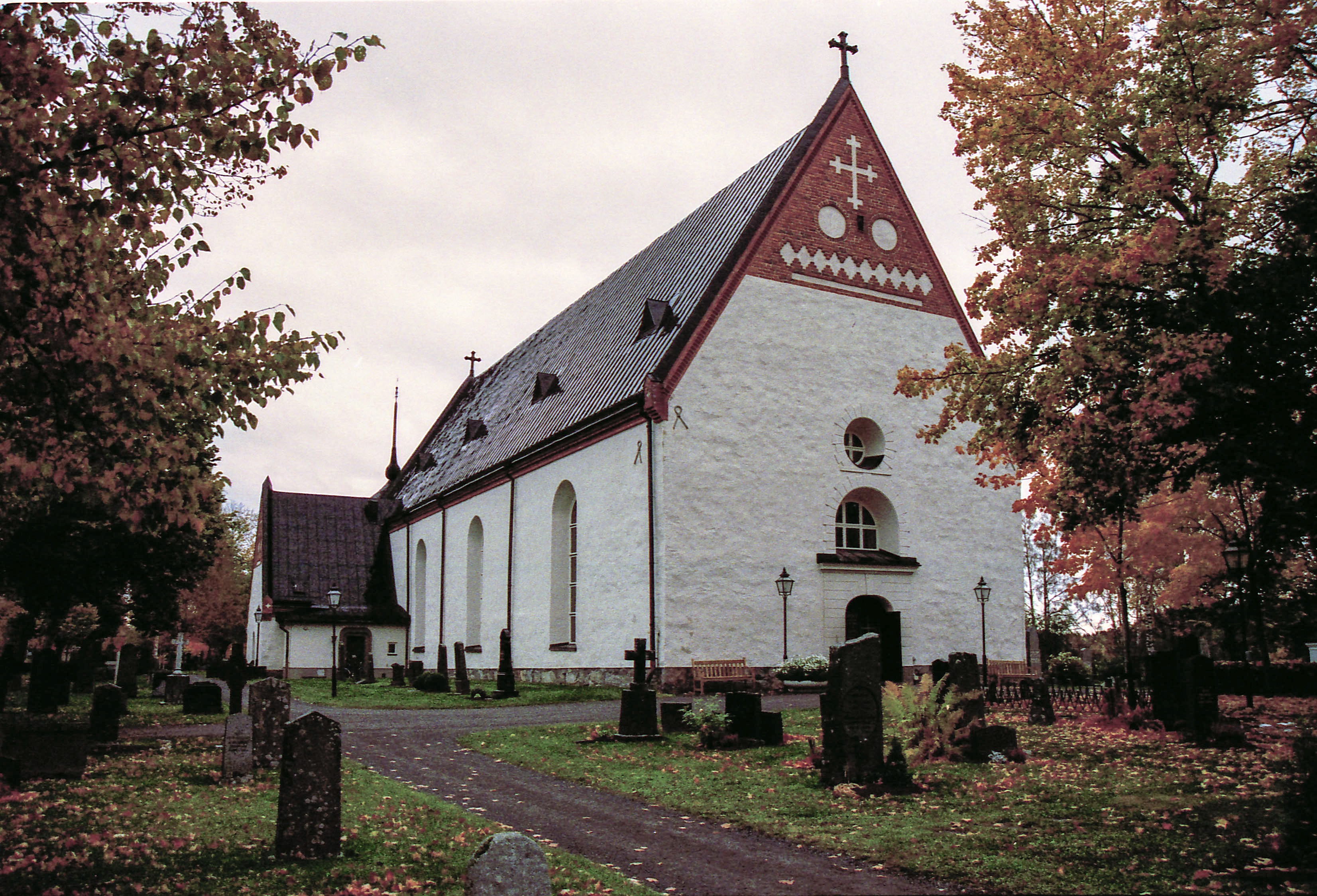 Backens church in Umeå Sweden.